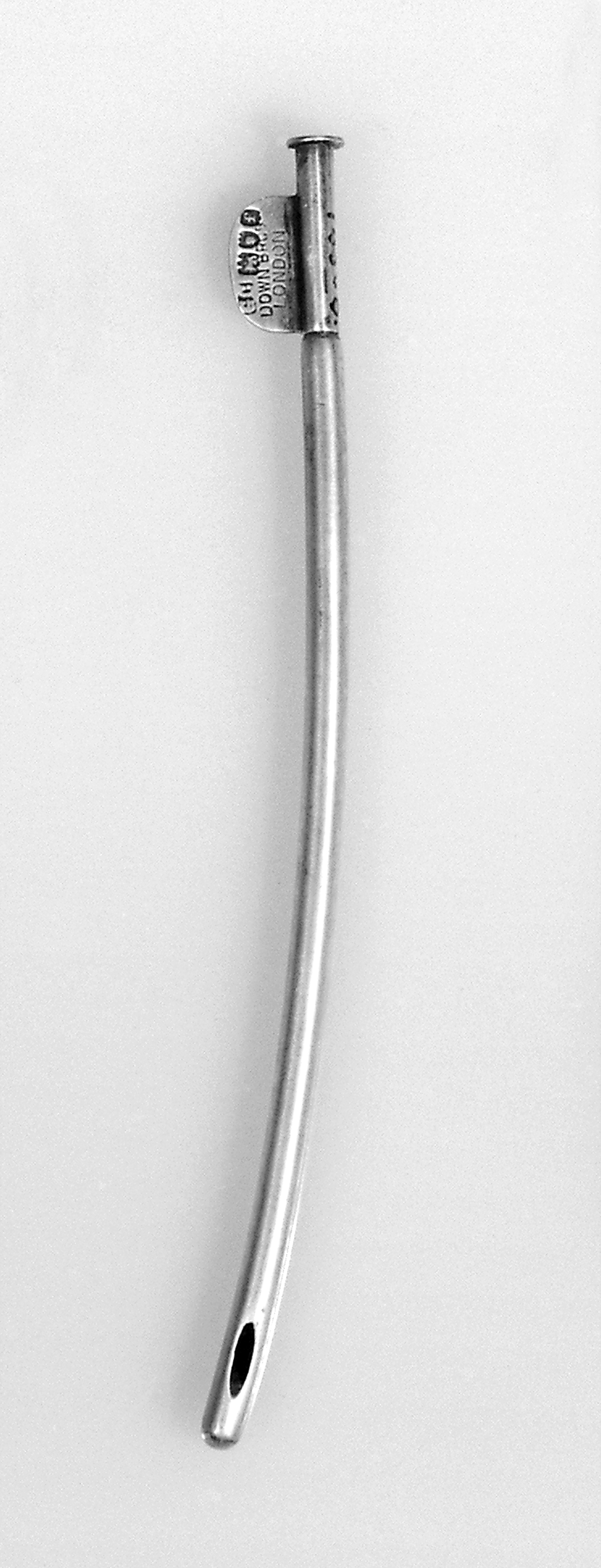 Silver Catheter Wellcome Images